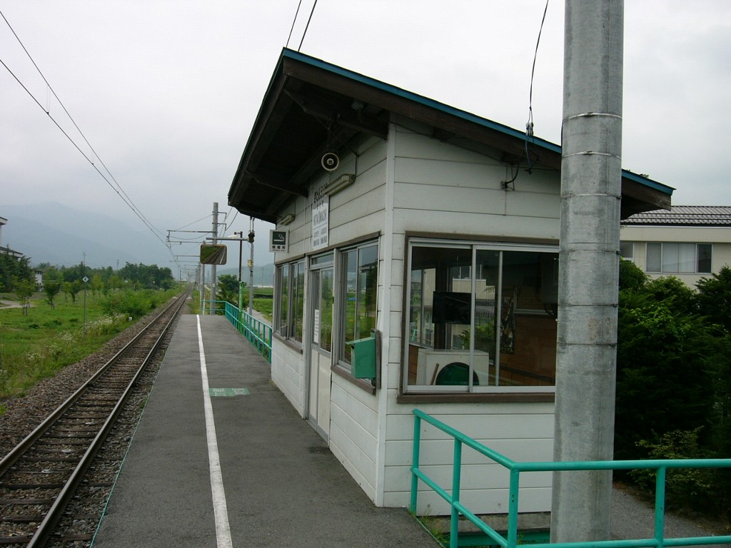 The platform and waiting room at Kita-Omachi station of East Japan railway company (JR East) Oito line, Omachi city Nagano prefecture Japan.